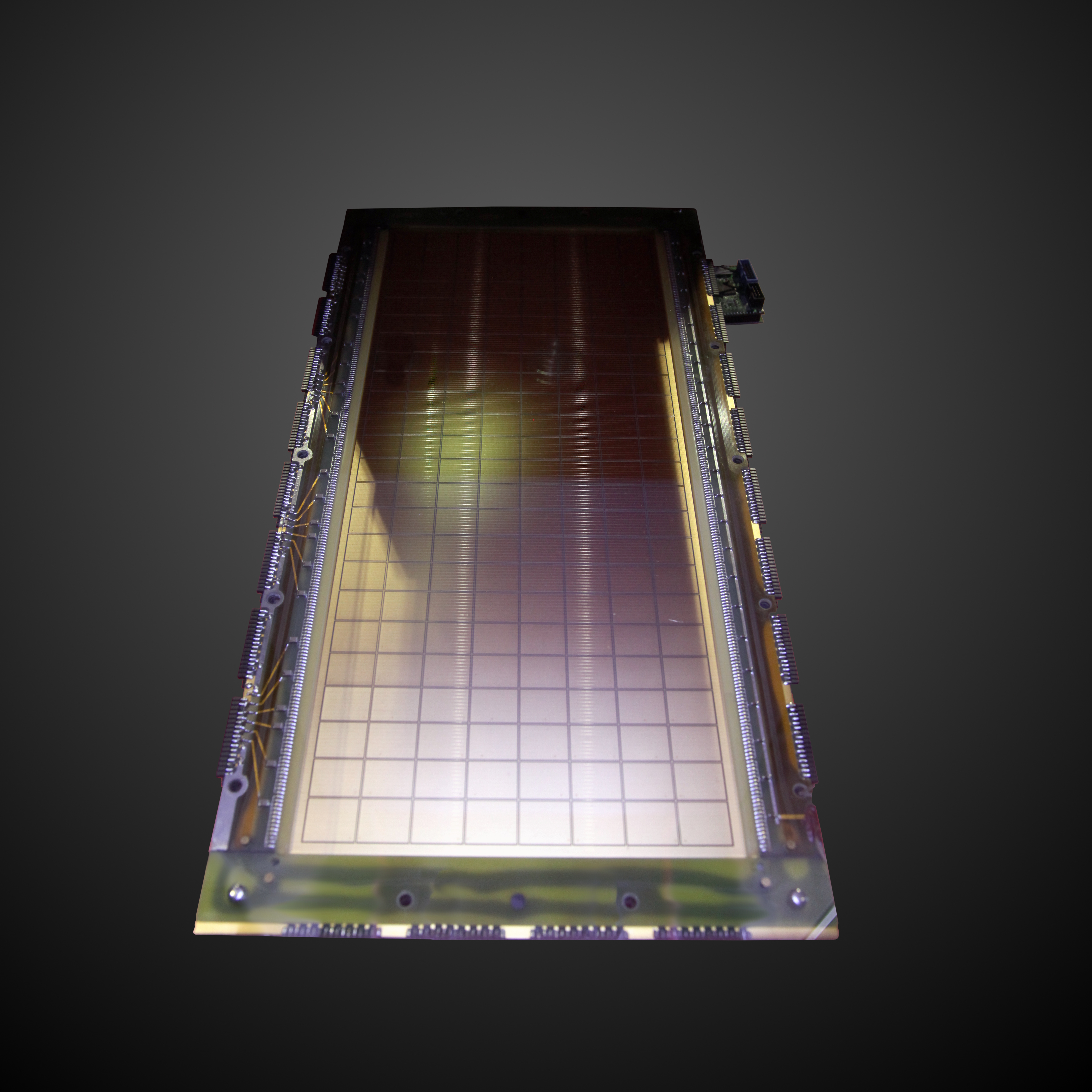 Wire chamber of LHCb, on display at the Microcosm exhibition at CERN